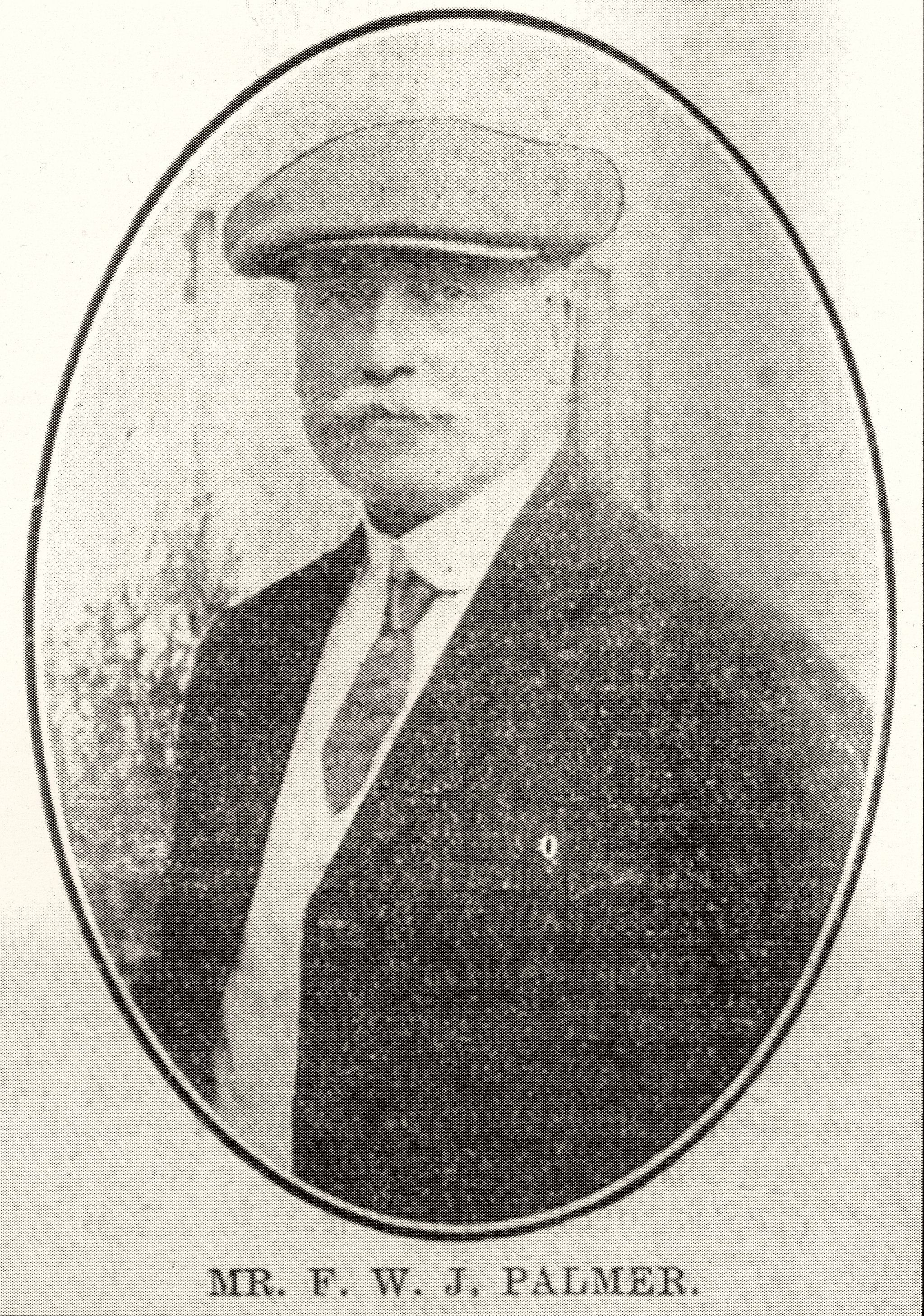 FWJ Palmer, Herne Bay Council Surveyor, and architect of the King's Hall Herne Bay, Kent, England in both phases 1904 and 1913. Note: The initial image uploads for this filepage are scans of a print of a microfilm of the original newspaper. These were blurred and spoilt by the microfilm process. A better scan of the same image was uploaded in 2013, from Mike Bundock (10 July 2013). The Kings Hall Herne Bay: celebrating 100 years. Canterbury: Herne Bay Historical Records Society. ISBN 9781909164093. This book used scans from the original newspaper, not micrifilm.